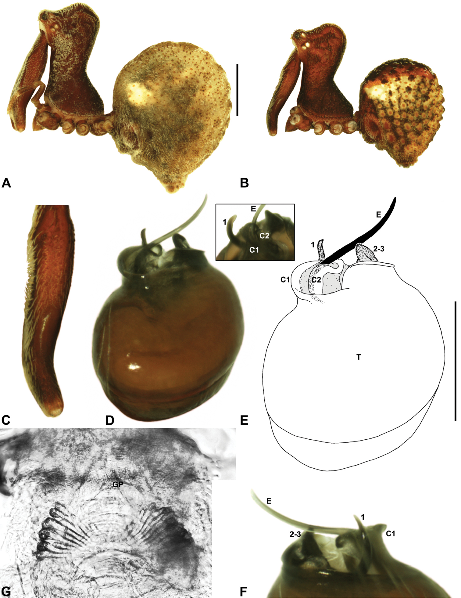 Zephyrarchaea marae. A–B, Cephalothorax and abdomen, lateral view: A, allotype female (MV K5921) from Gunyah Rainforest State Reserve, Victoria; B, holotype male (MV K11580) from Tarra-Bulga National Park, Victoria. C, Holotype male chelicerae, lateral view, showing accessory setae. D–F, Holotype male pedipalp: D–E, bulb, retrolateral view, with inset showing twisted apex of tegular sclerite 1 in retroventral view; F, detail of distal tegular sclerites, prolateral view. G, Allotype female internal genitalia, dorsal view. C1–2 = conductor sclerites 1–2; E = embolus; GP = genital plate; T = tegulum; (TS)1–3 = tegular sclerites 1–3. Scale bars: A–B = 1.0 mm; E = 0.2 mm.